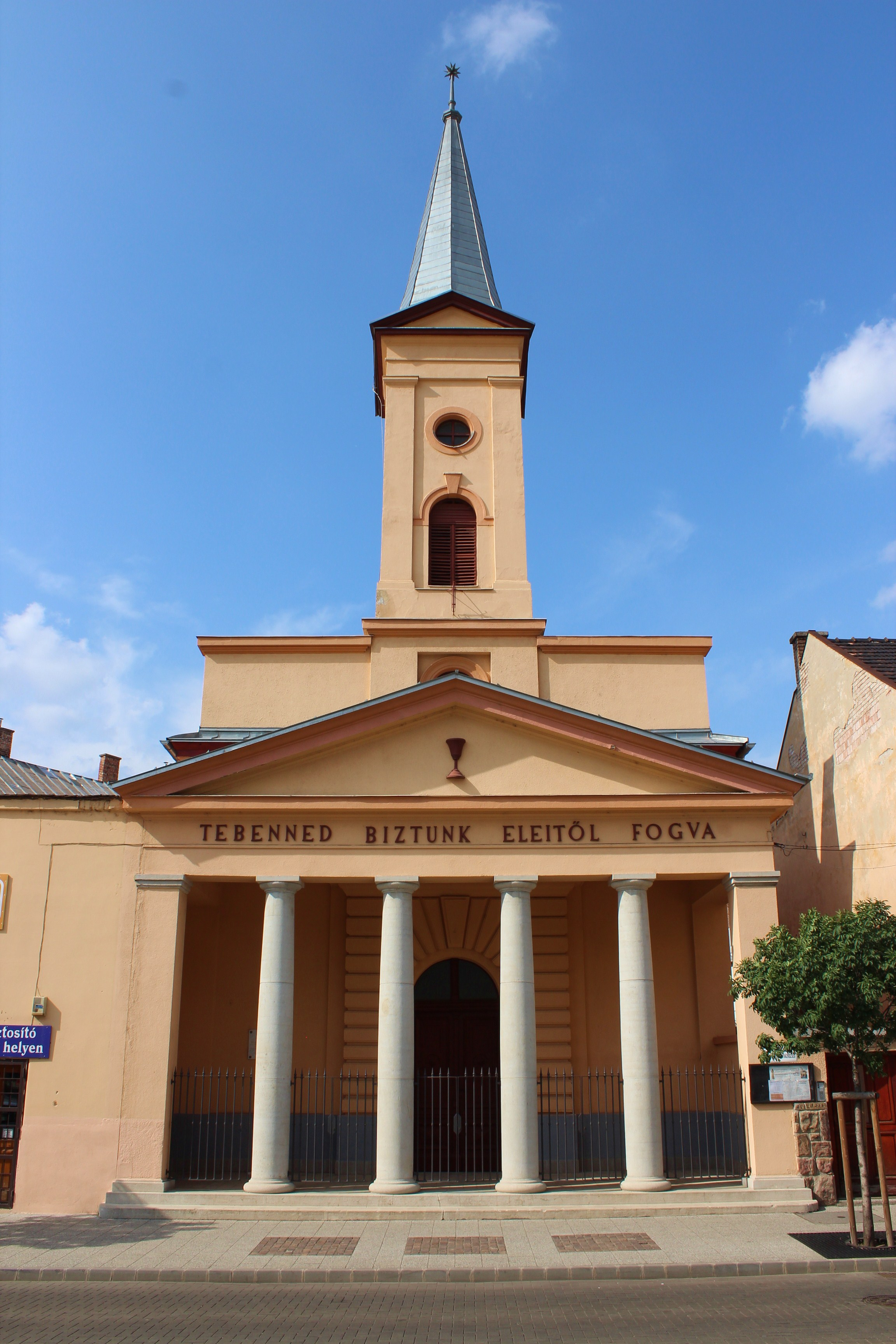 Reformed church in Újpest, Budapest